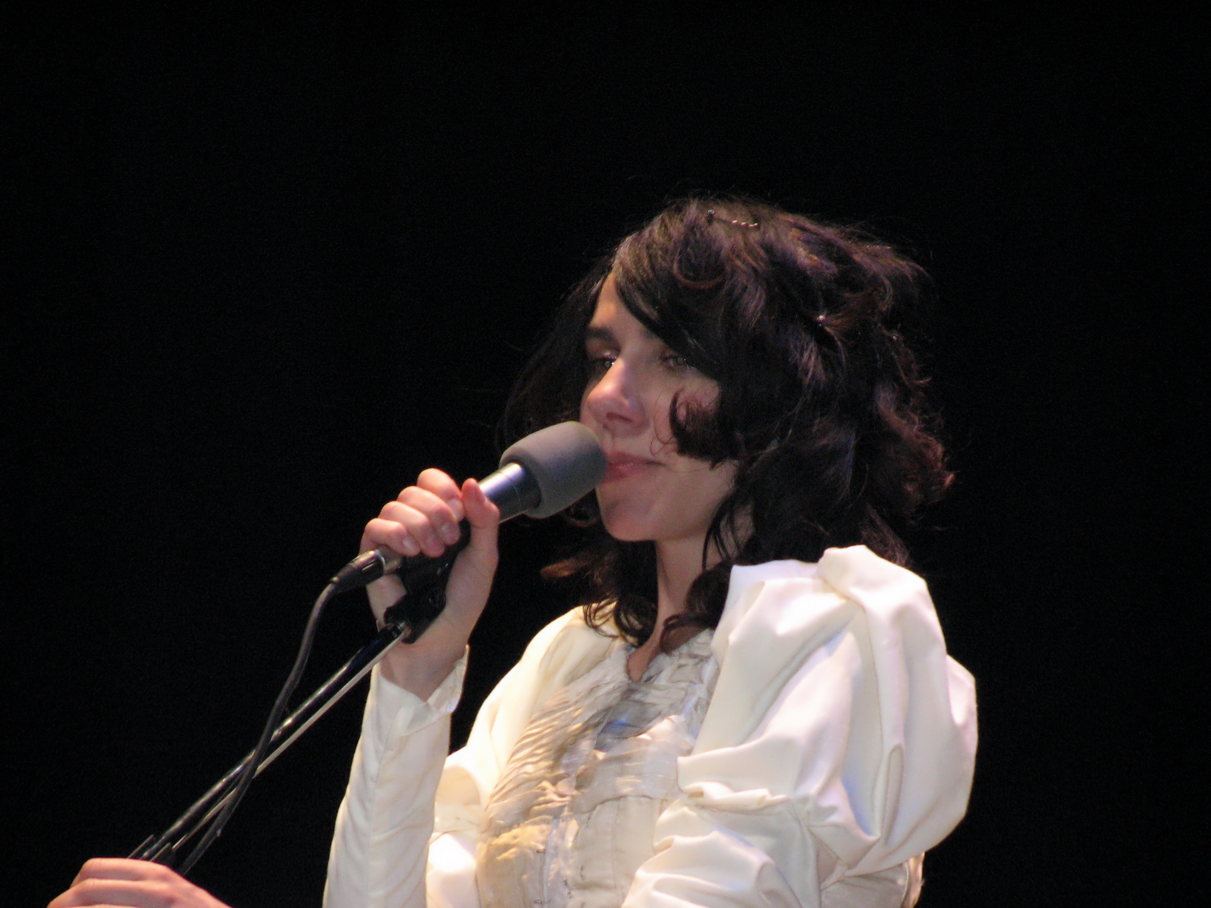 PJ Harvey performing live in Athens, Greece.